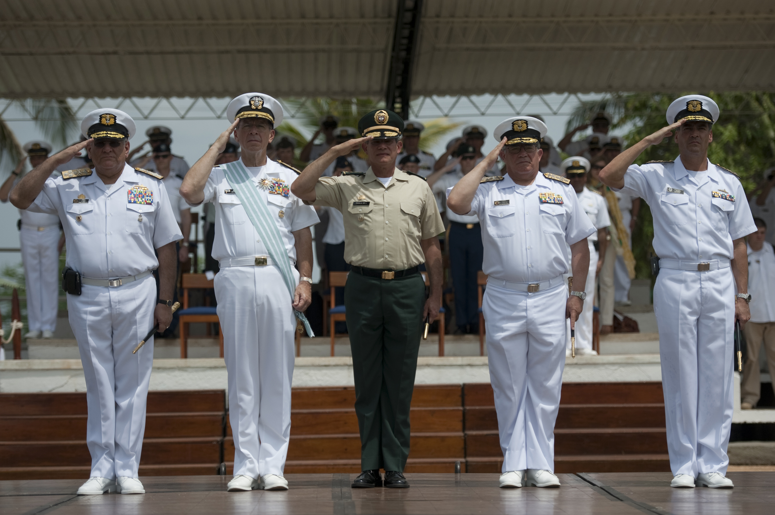 100630-N-0696M-297 Colombian Chief of Naval Operations Navy Adm. Egar Cely, Adm. Mike Mullen, chairman of the Joint Chiefs of Staff, Gen. Freddy Padilla, Colombian Chief of Defense, Adm. David Rene Moreno, vice chief of Defense and Rear Adm. Luis Ordonez, director, Colombian Naval Academy renders honors during a welcoming ceremony for Mullen, to Cartegena, Colombia on June 30, 2010. The chairman visited the South American country to meet with Colombian military leadership and reaffirm the commitment between the two countries in their ongoing war against naco-terrorism. (DoD photo by Mass Communication Specialist Chad J. McNeeley/Released)